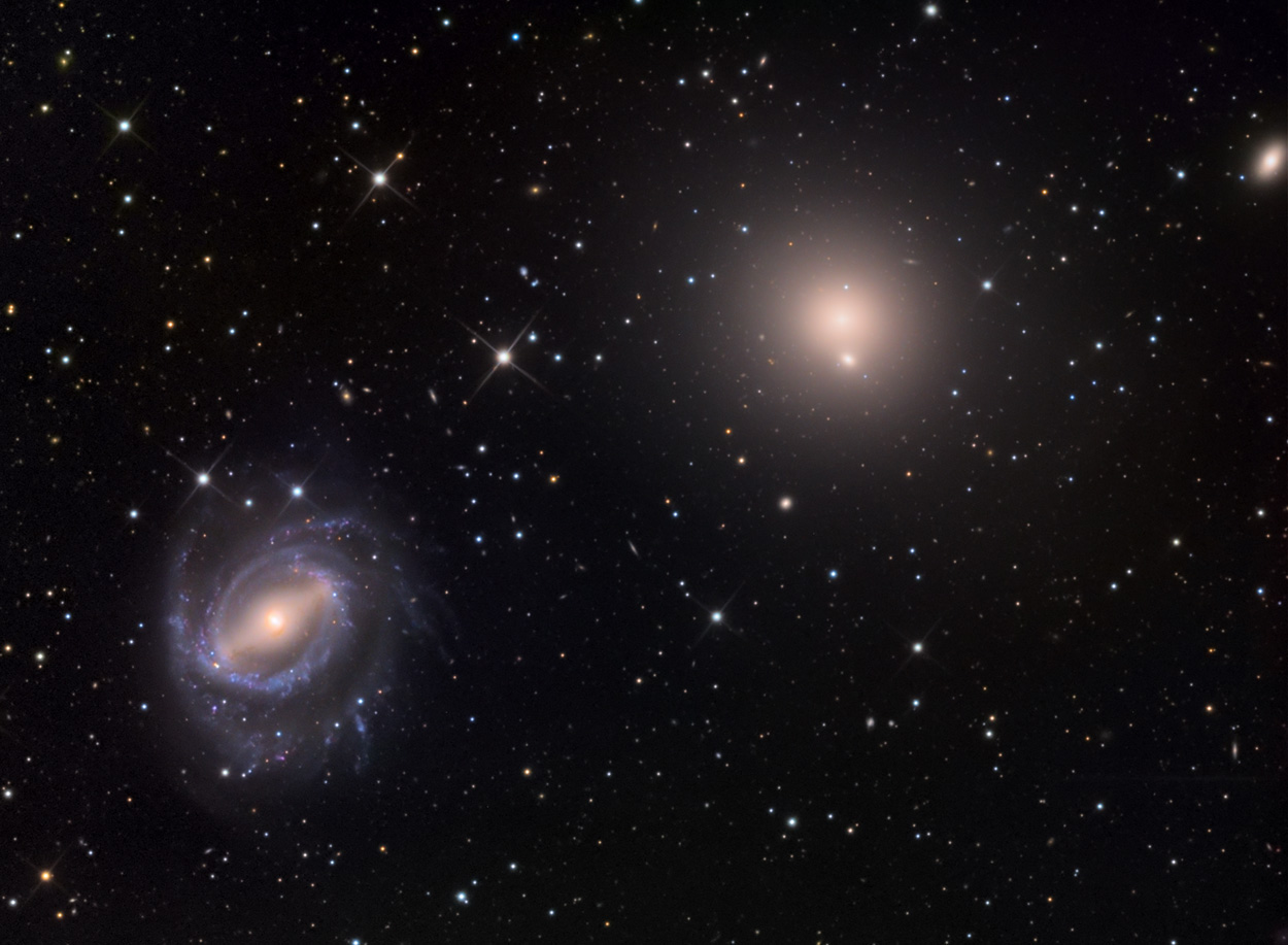 Deep exposures of Galaxies using the 0.8m Schulman Telescope at the Mount Lemmon SkyCenter Credit Line & Copyright Adam Block/Mount Lemmon SkyCenter/University of Arizona